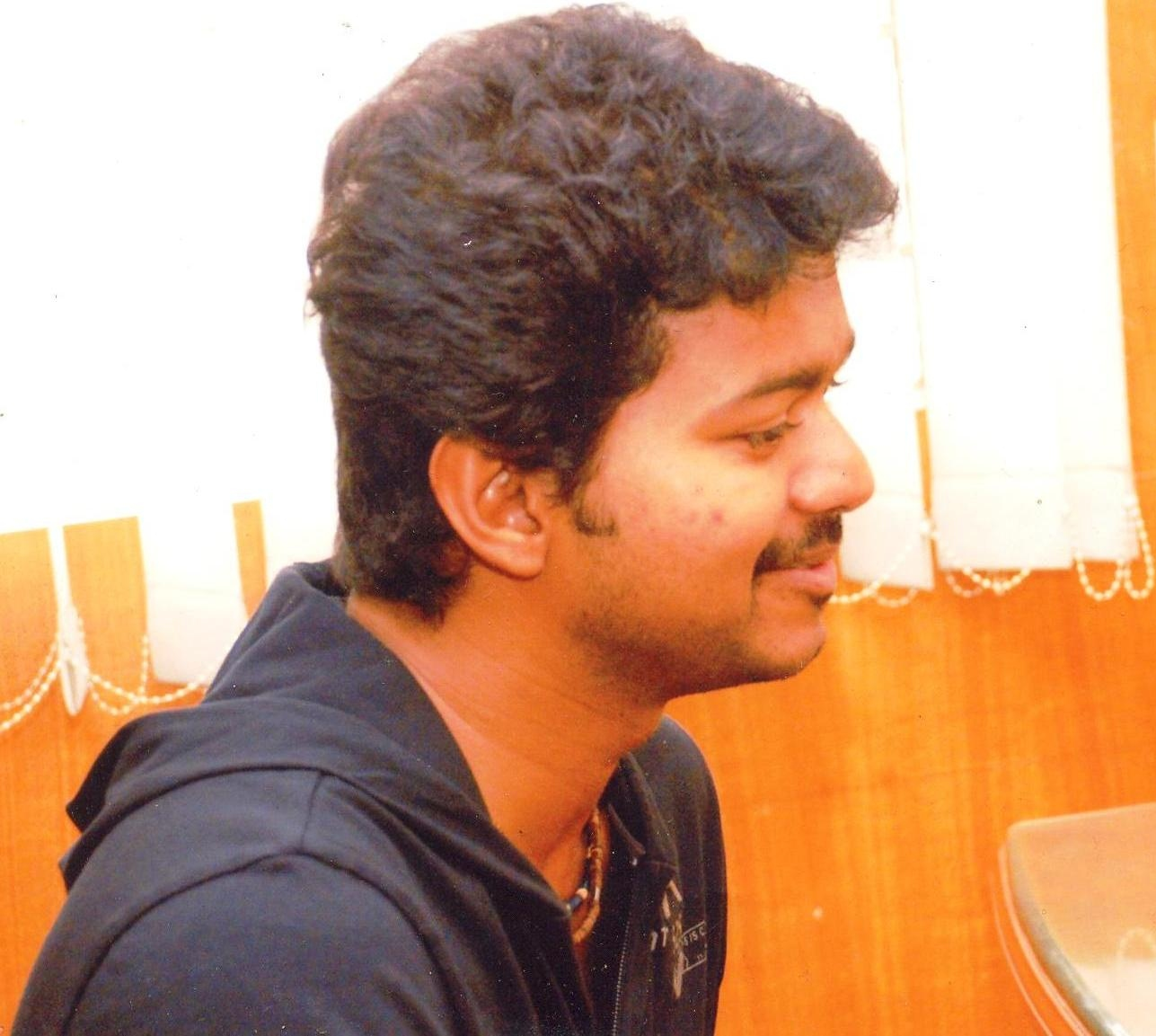 Actor Vijay .